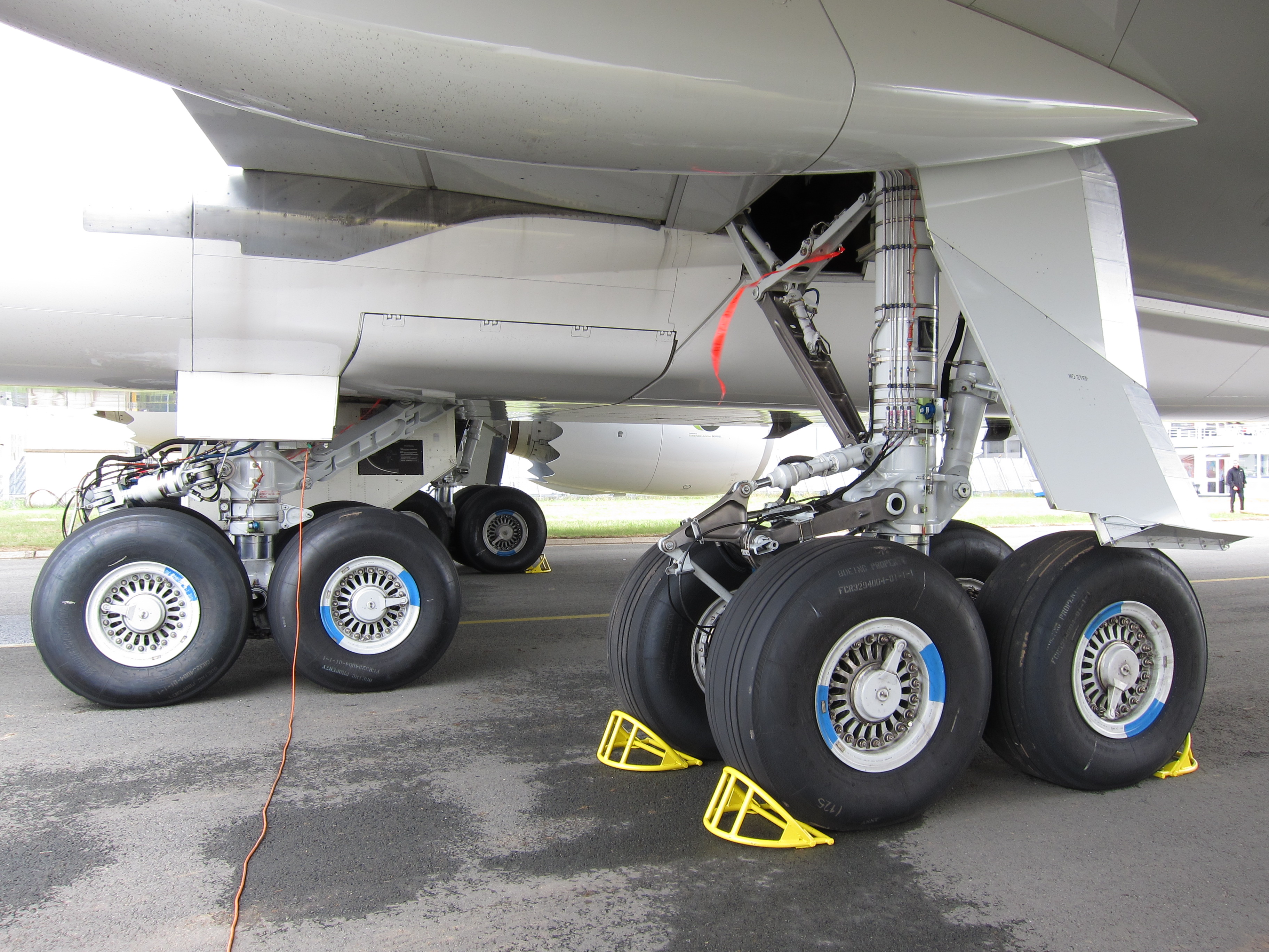 Main landing gear of a Boeing 747-8F prototype.